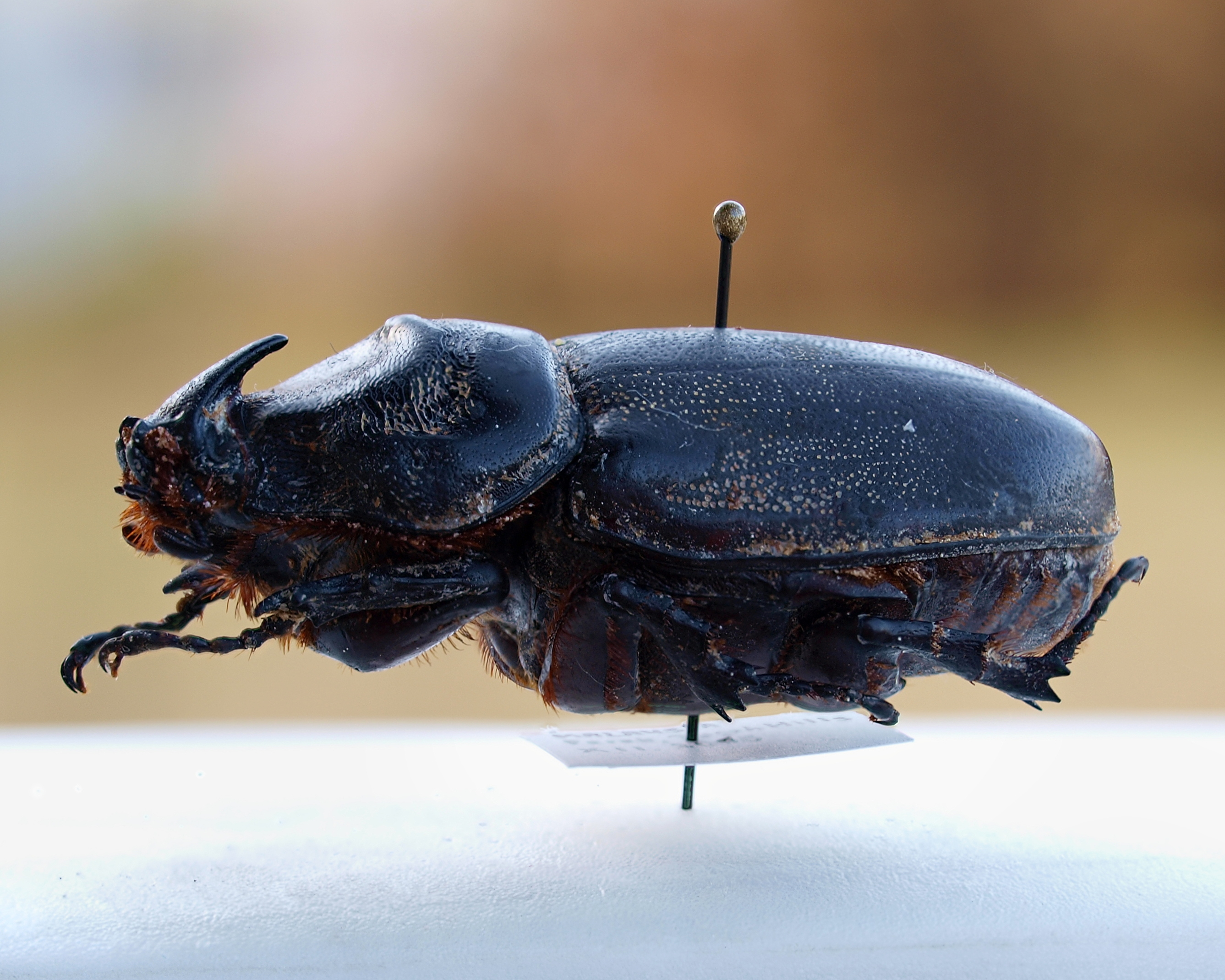 Oryctes gnu